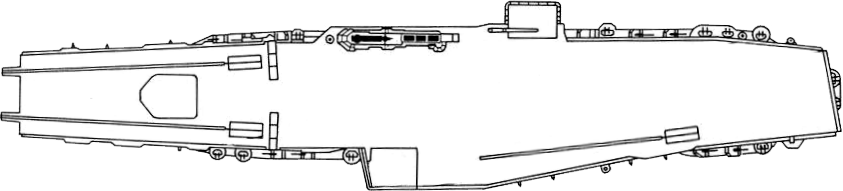 Deck plan of the U.S. Navy aircraft carrier USS Midway (CVA-41) following her SCB-110 refit, in late 1957. USS Franklin D. Roosevelt (CVA-42) was modernized identically, USS Coral Sea (CVA-43) received a different SCB-110A refit.